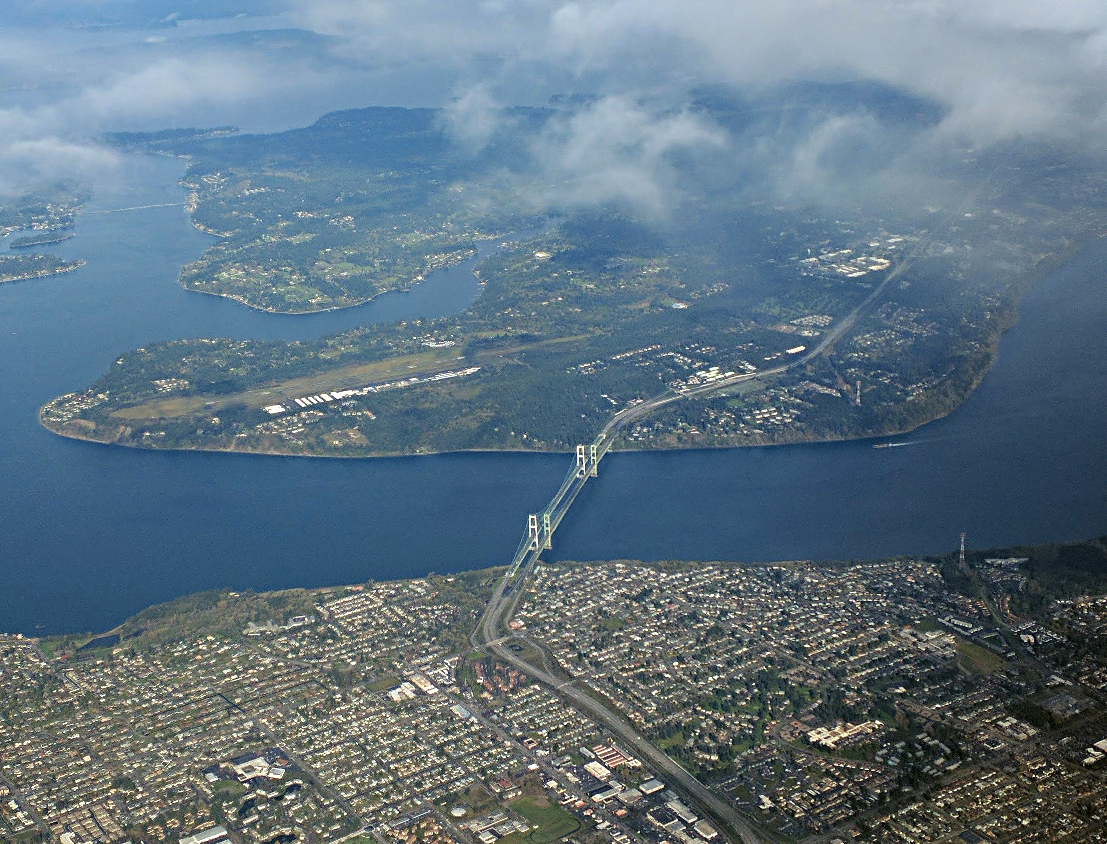 The Tacoma Narrows, and bridges, from the south